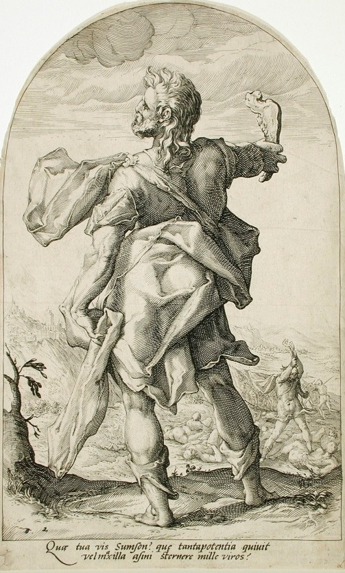 Print of Samson with the jawbone, Inscribed Quae tua vis Sumson? que tantapotentia quiuit vel maxilla asini sternere mille viros?; Engraving, 26.67 x 16.99 cm. Inventory number M.76.92.4; Heroes of the Old Testament: Jahel, Samson, David, Judith, plate 2. After Hendrik Goltzius.